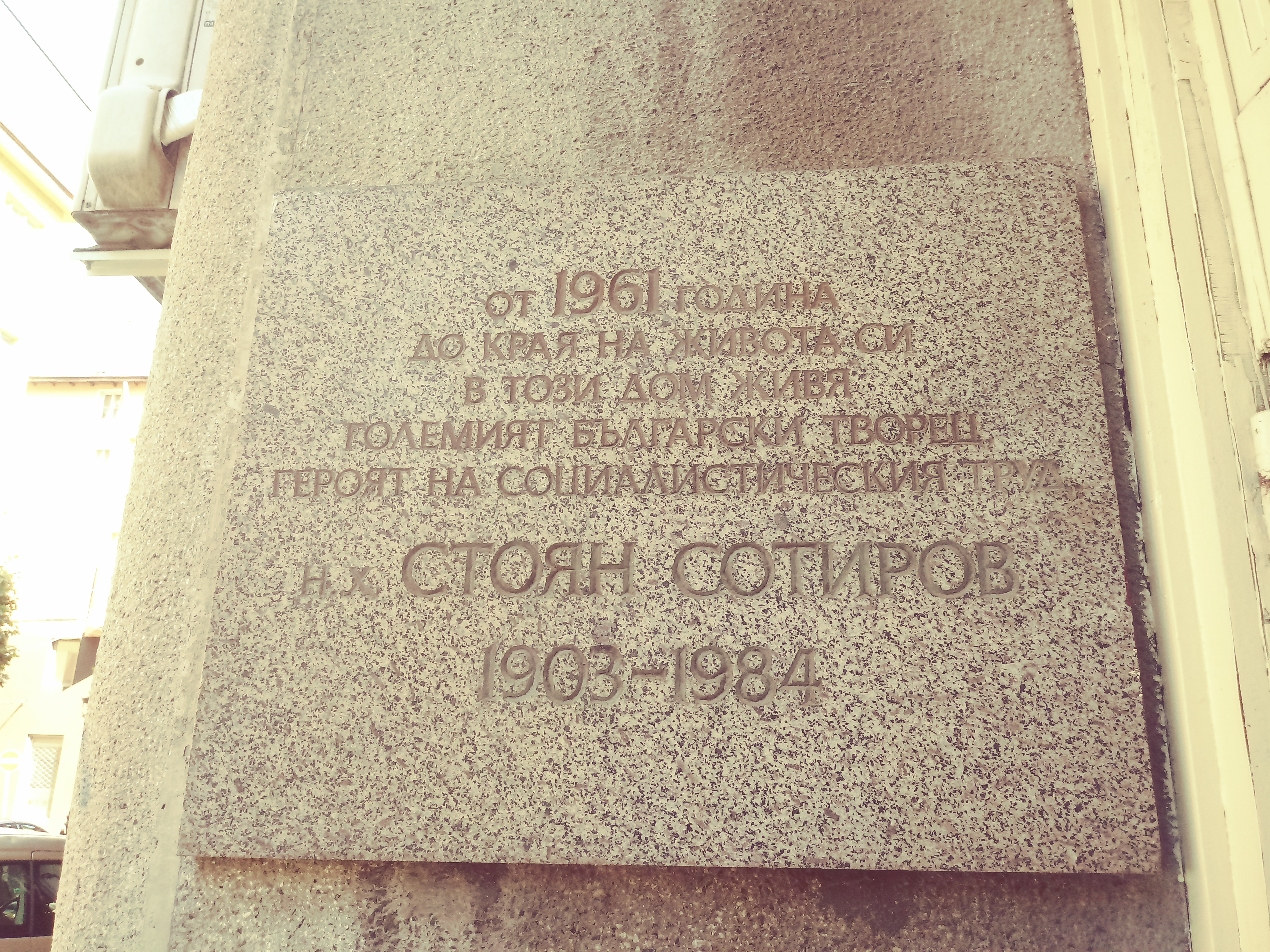 Memorial plaque of Bulgarian artist Stoyan Sotirov, 209 Rakovski Str., Sofia, Bulgaria